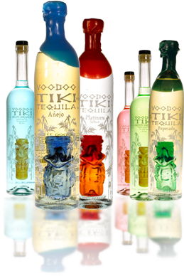 Various bottles of tequila